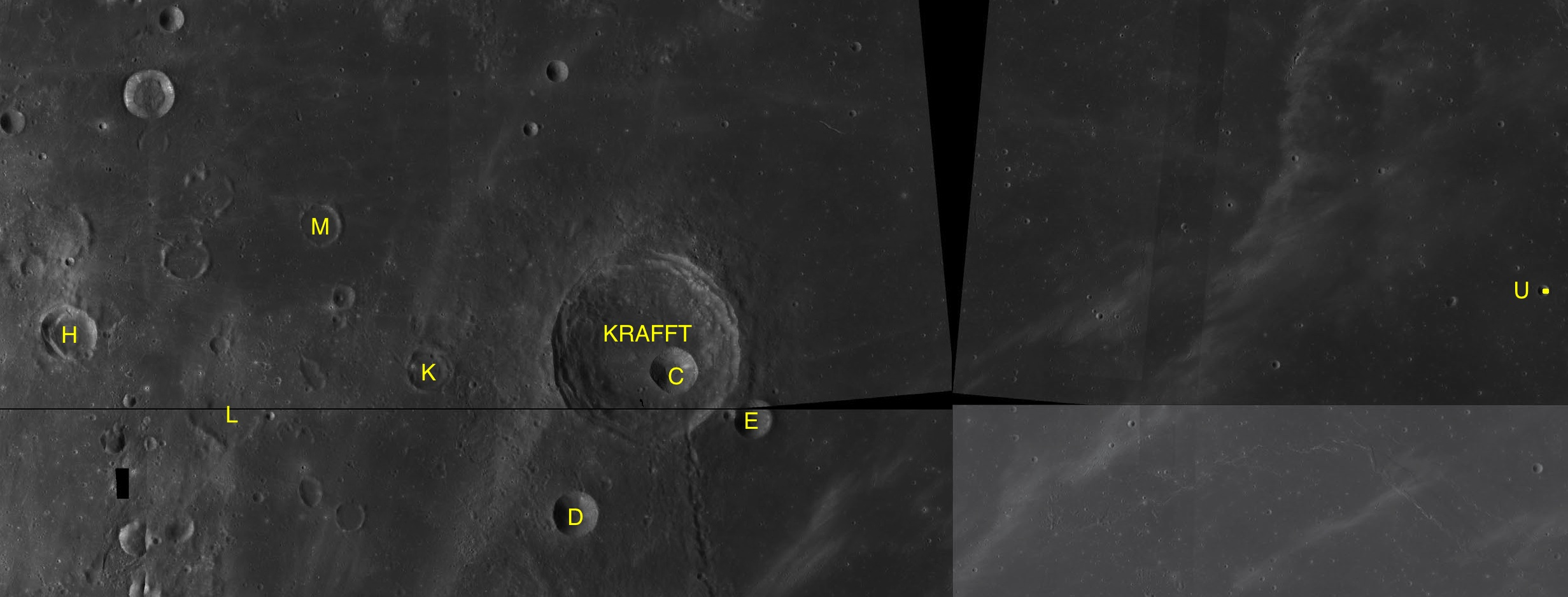 Parts of the charts LAC-37, LAC-38, LAC-55, LAC-56 used for the presentation